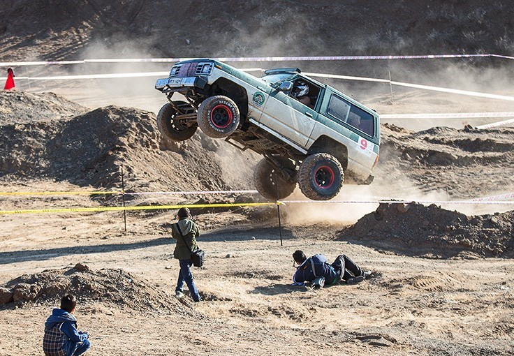 Vahdat off-road racing competitions in Sabzevar, Iran